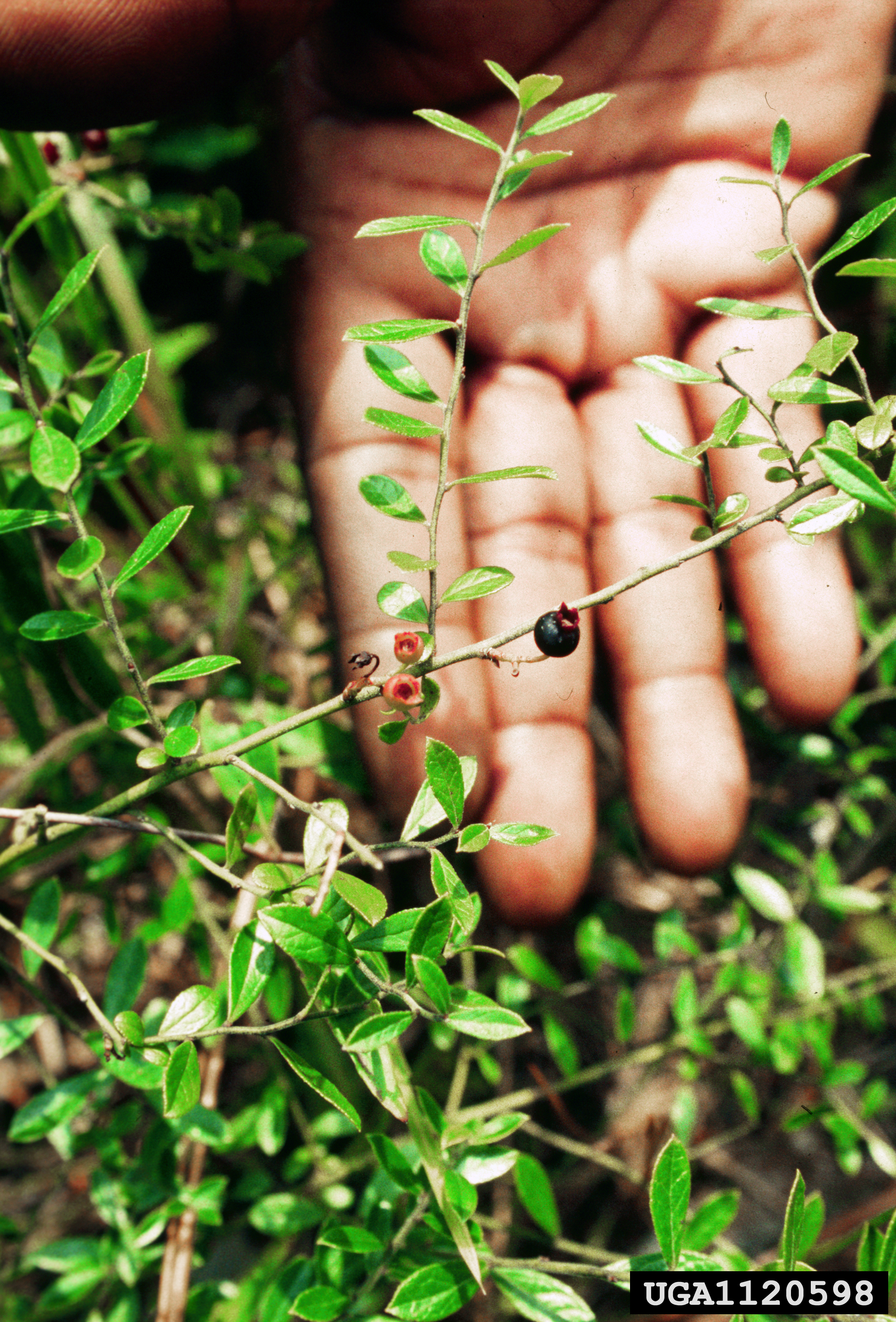 Vaccinium myrsinites in June. Photo from Forest Plants of the Southeast and Their Wildlife Uses by J.H. Miller and K.V. Miller, published by The University of Georgia Press in cooperation with the Southern Weed Science Society.